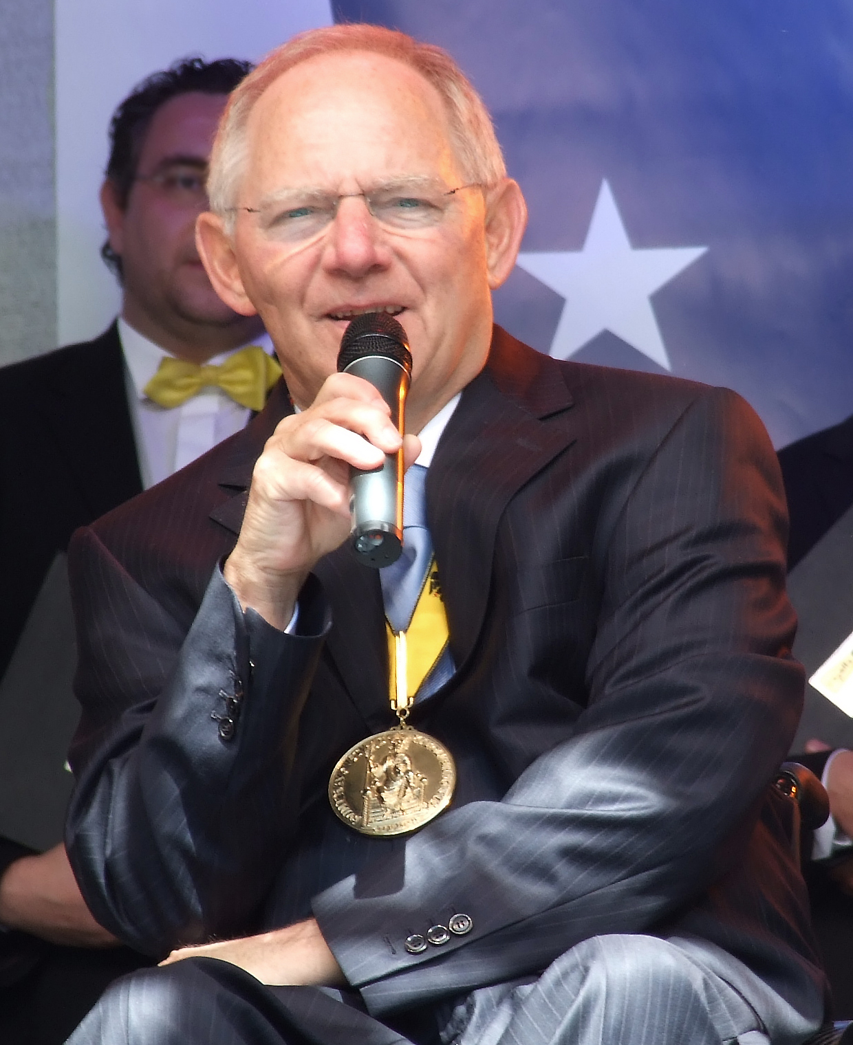 Wolfgang Schäuble at the Charlemagne Prize celebration 2012